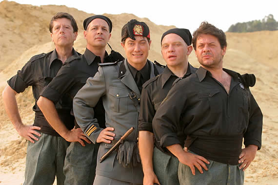 From left Andrea Purgatori (as Fecchia), Andrea Blarzino (as Santodio), Corrado Guzzanti (as Barbagli), Marco Marzocca (as Freghieri), Pasquale "Lillo" Petrolo (as Pini) on Fascisti su Marte.